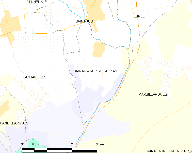 Map commune FR insee code 34280.png - Saint-Nazaire-de-Pézan